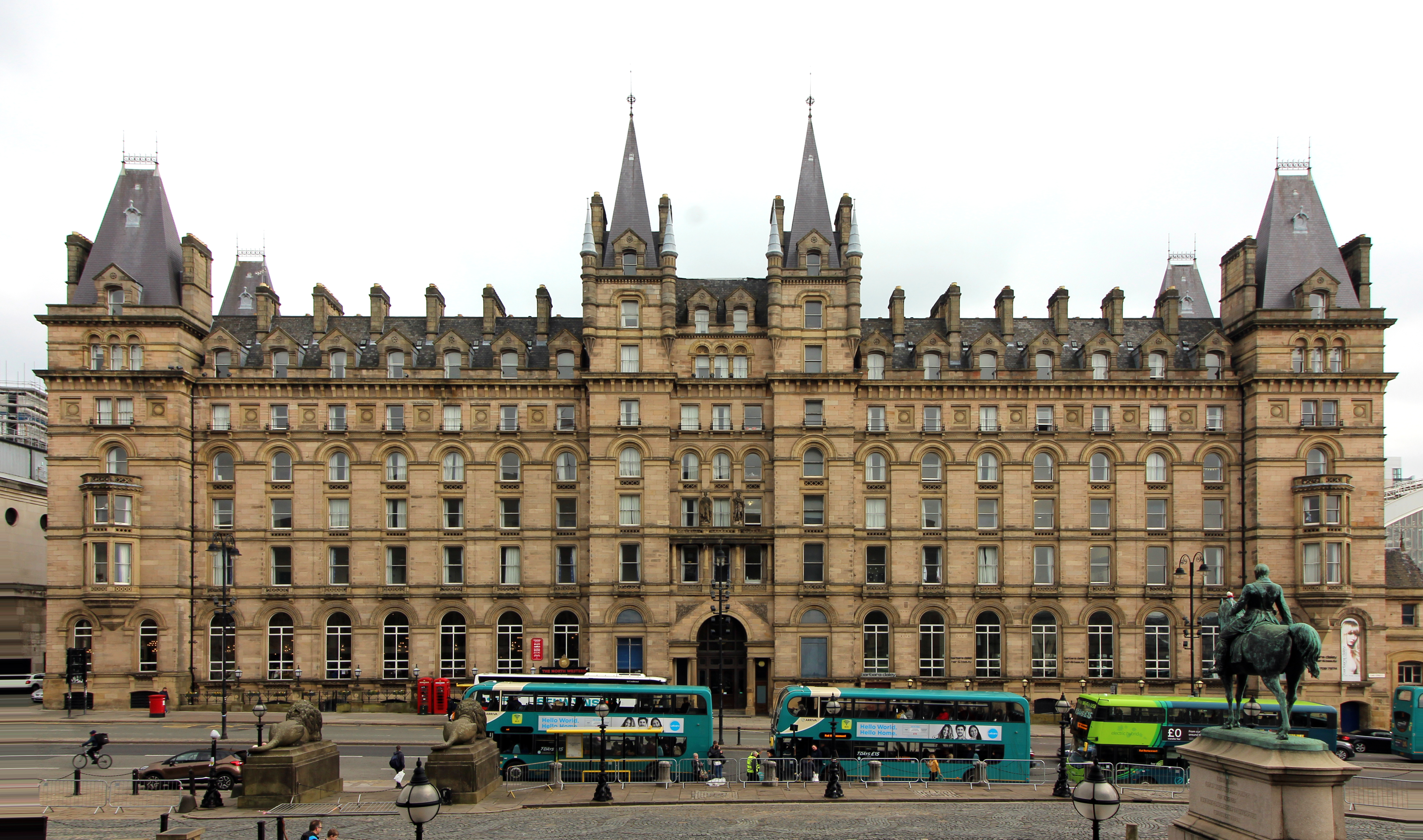 Front elevation of the Grade II listed former offices and hotel, now student accommodation. Designed by Alfred Waterhouse and built c. late 19th century.